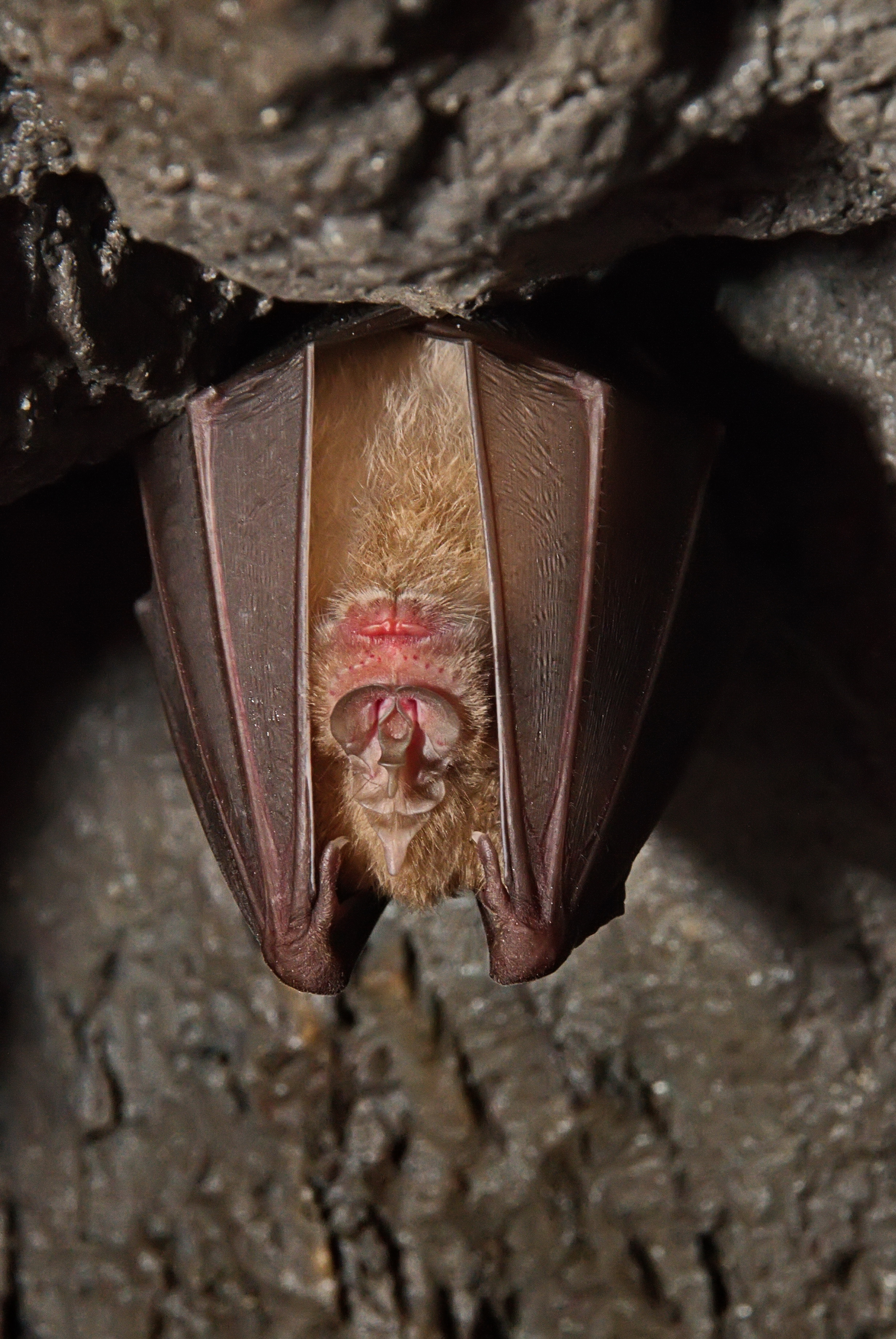 Greater horseshoe bat - the european bat, that has a status of rarely species of Ukraine and added to the Ukrainian Red Book Lists at 2009 year. The greater horseshoe bat is the largest horseshoe bat in Europe. The specific nose diffusor helps horseshoe bats to emit through it ultrasound waves on the frequency 75-81 kHz.